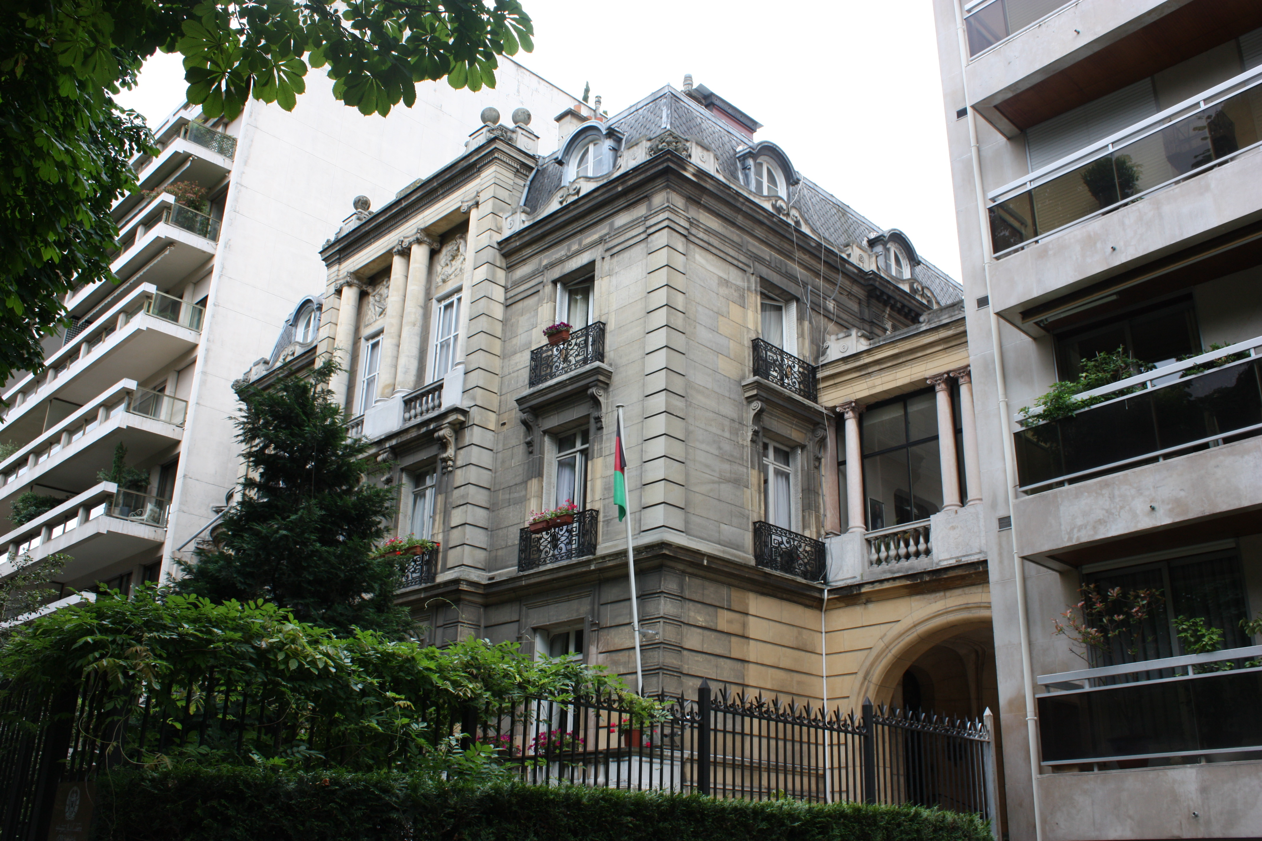 Afghan Embassy at Avenue Raphaël in Paris